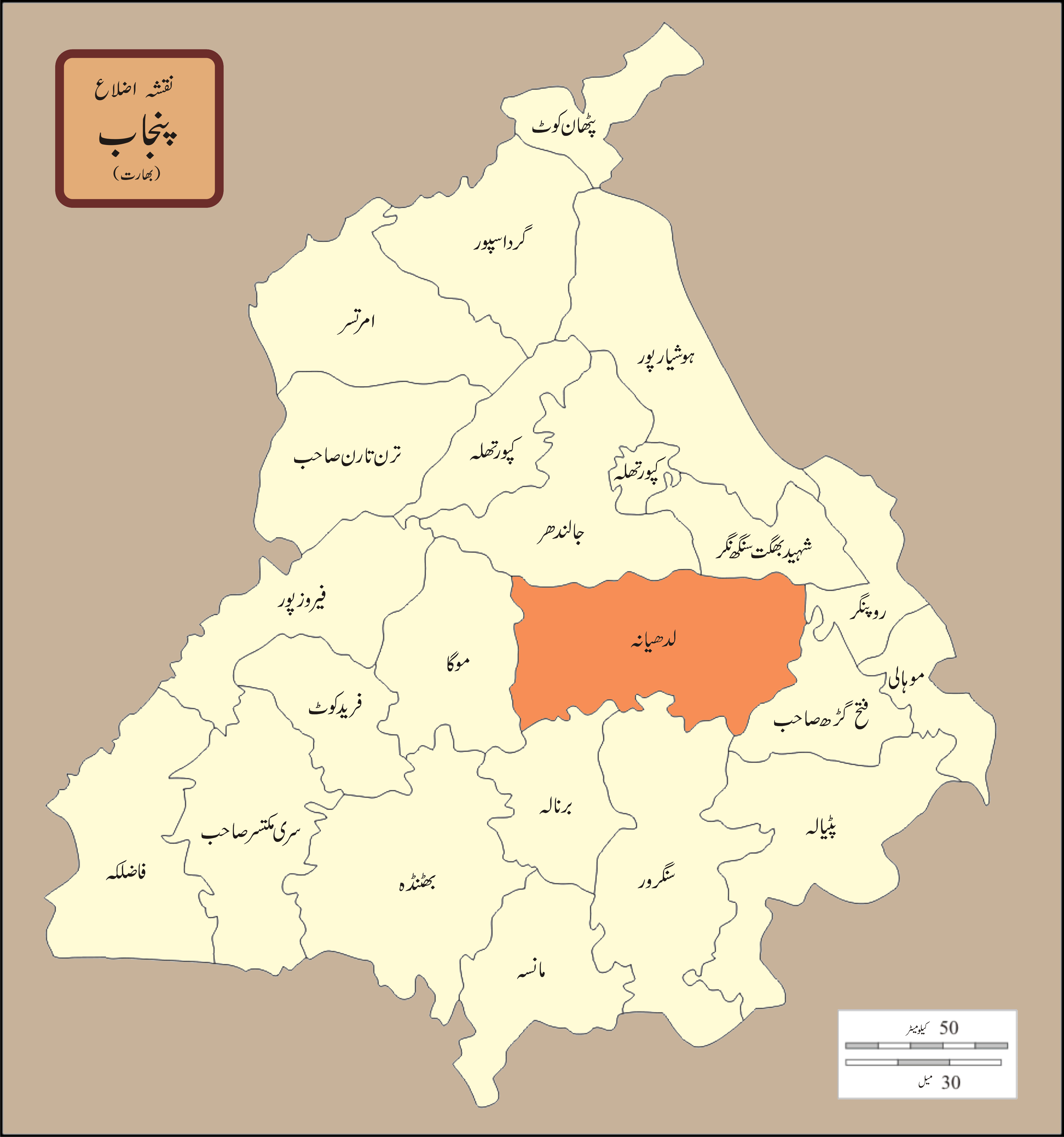 Punjab India Dist Ludhiana (Urdu)